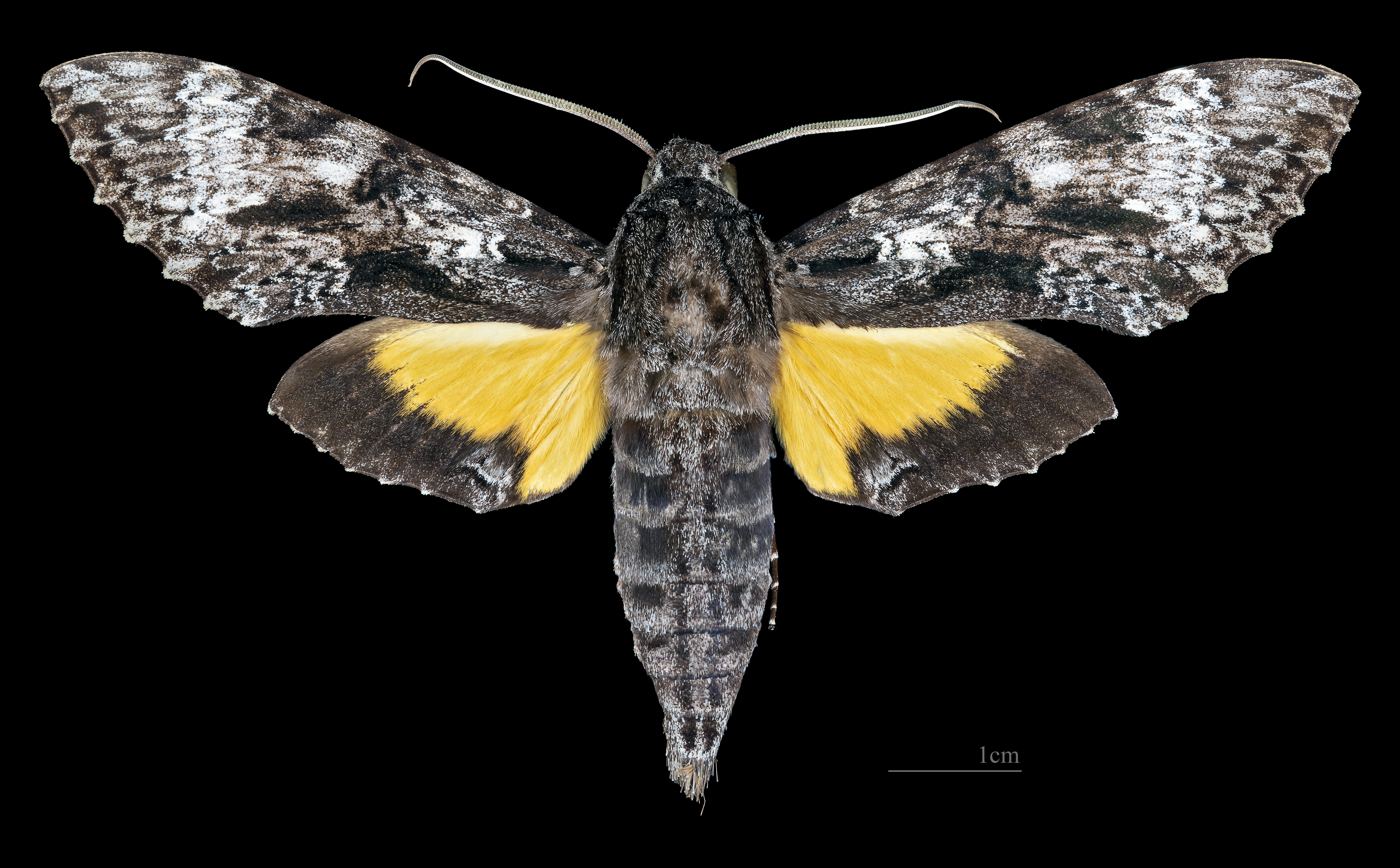 Isognathus occidentalis - Dorsal side Collection of the Mathematician Laurent Schwartz